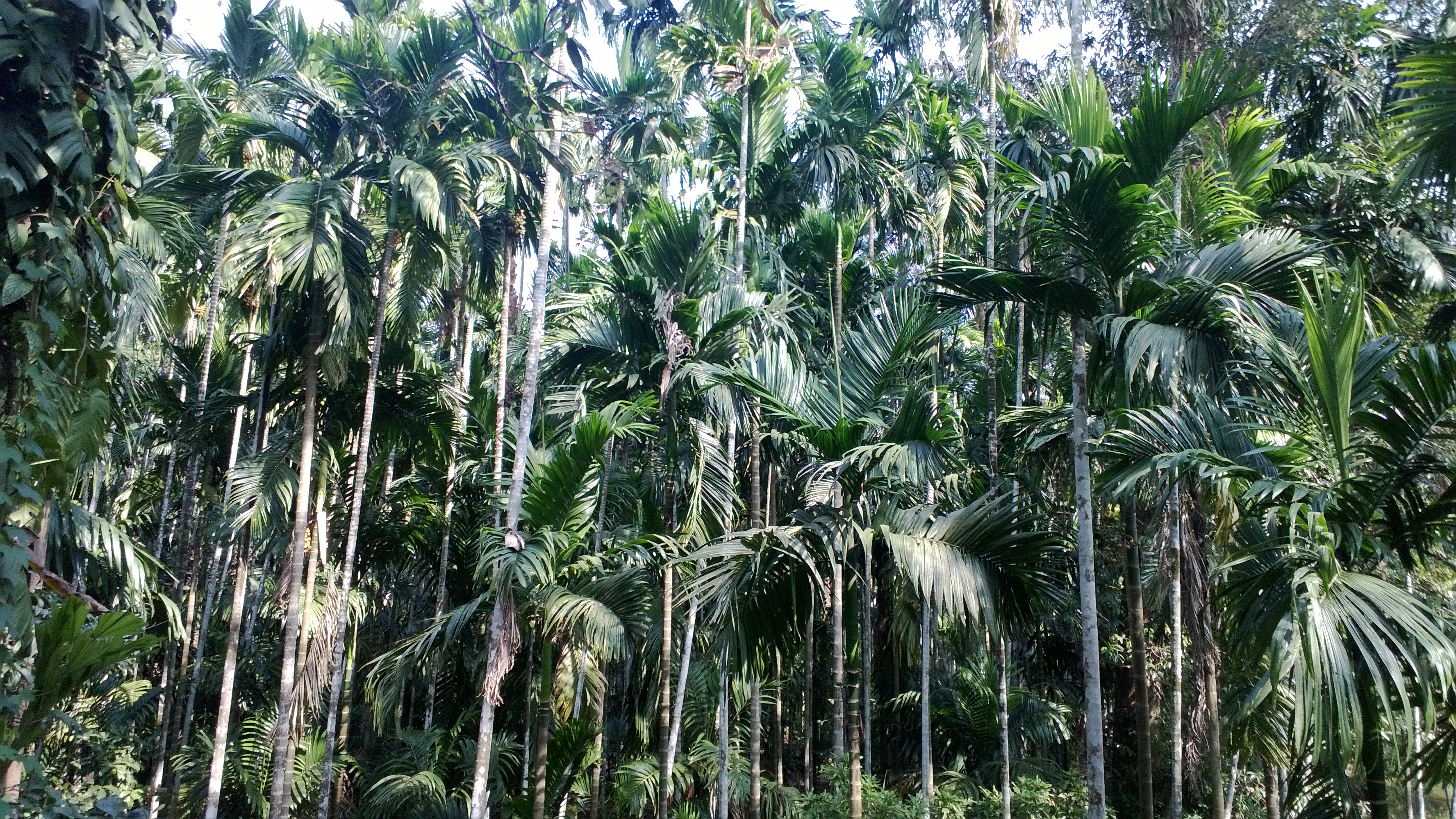 Intensive farming of Areca-nut palm (Areca catechu) at a spice plantation in the Ponda sub-district of Goa, India.